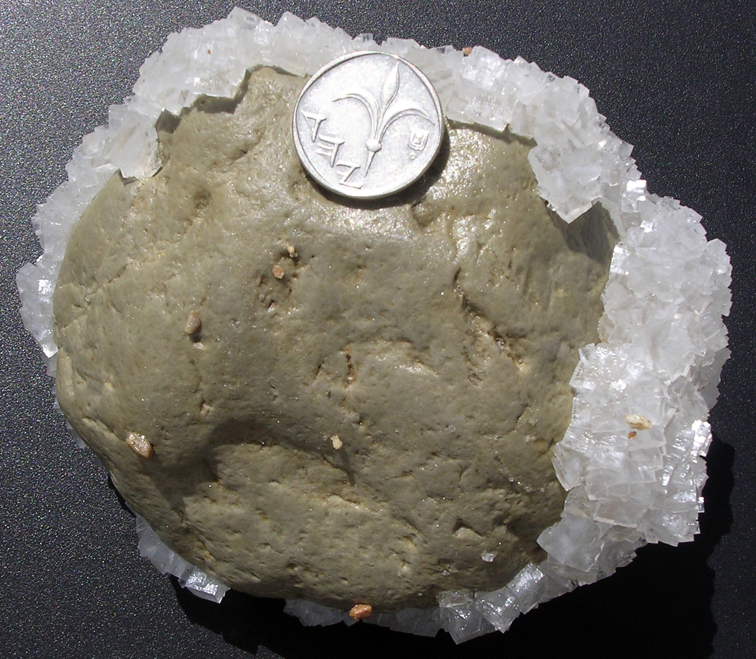 Cobble encrusted with halite from the western shore of the Dead Sea, Israel. The coin (1 Israeli New Shekel) has a diameter of 18 millimetres (0.71 in).